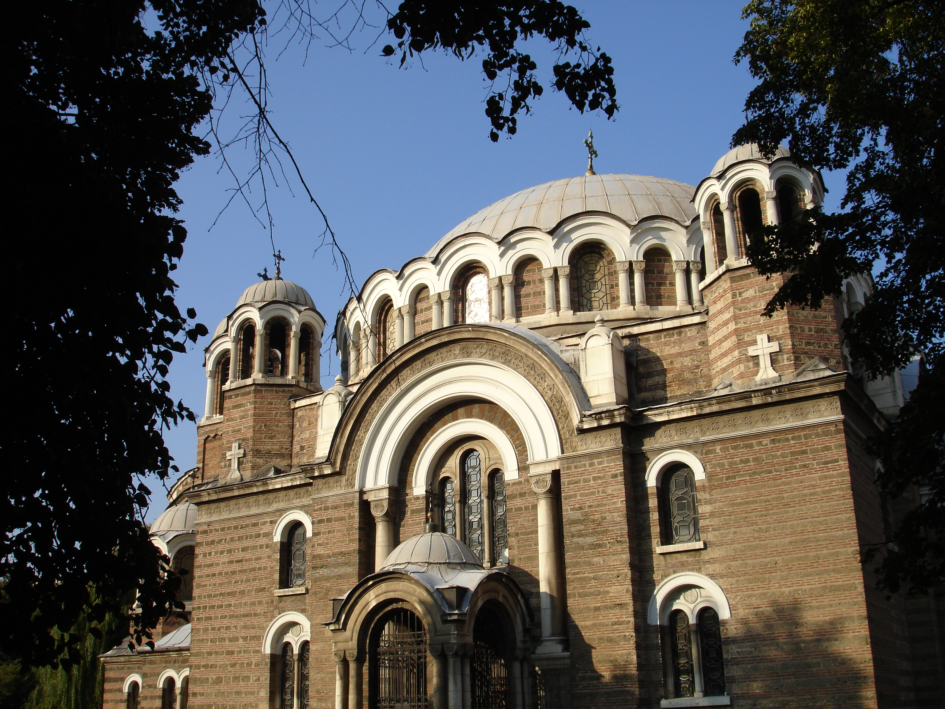 Sveti Sedmochislenitsi Church in Sofia, Bulgaria